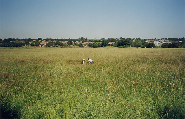 River Mead, Roding Valley Meadows The Roding Valley Meadows Nature Reserve comprises several flower-rich flood meadows. They are also rich in other wildlife. The students in the middle ground are checking butterflies they have caught for marks. In the background is Loughton